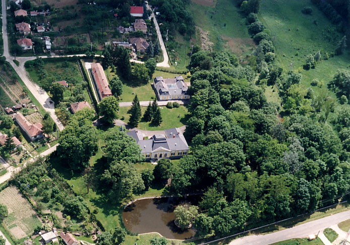 Palace - Alsópetény - Hungary - Europe